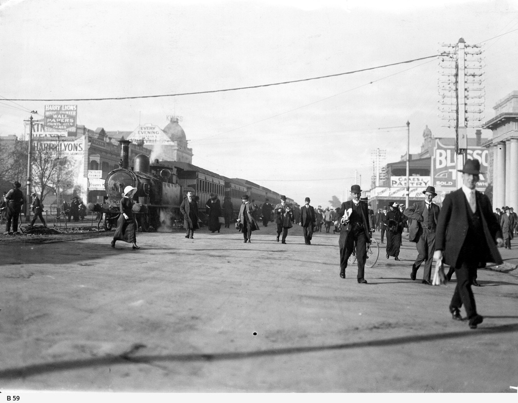 King William Street, Adelaide, looking south from Gouger Street. Taken 31st May 1914, the last day on which the Glenelg train came up King William Street. (See Register, 2nd June, 1914, p. 13 h.)[1]